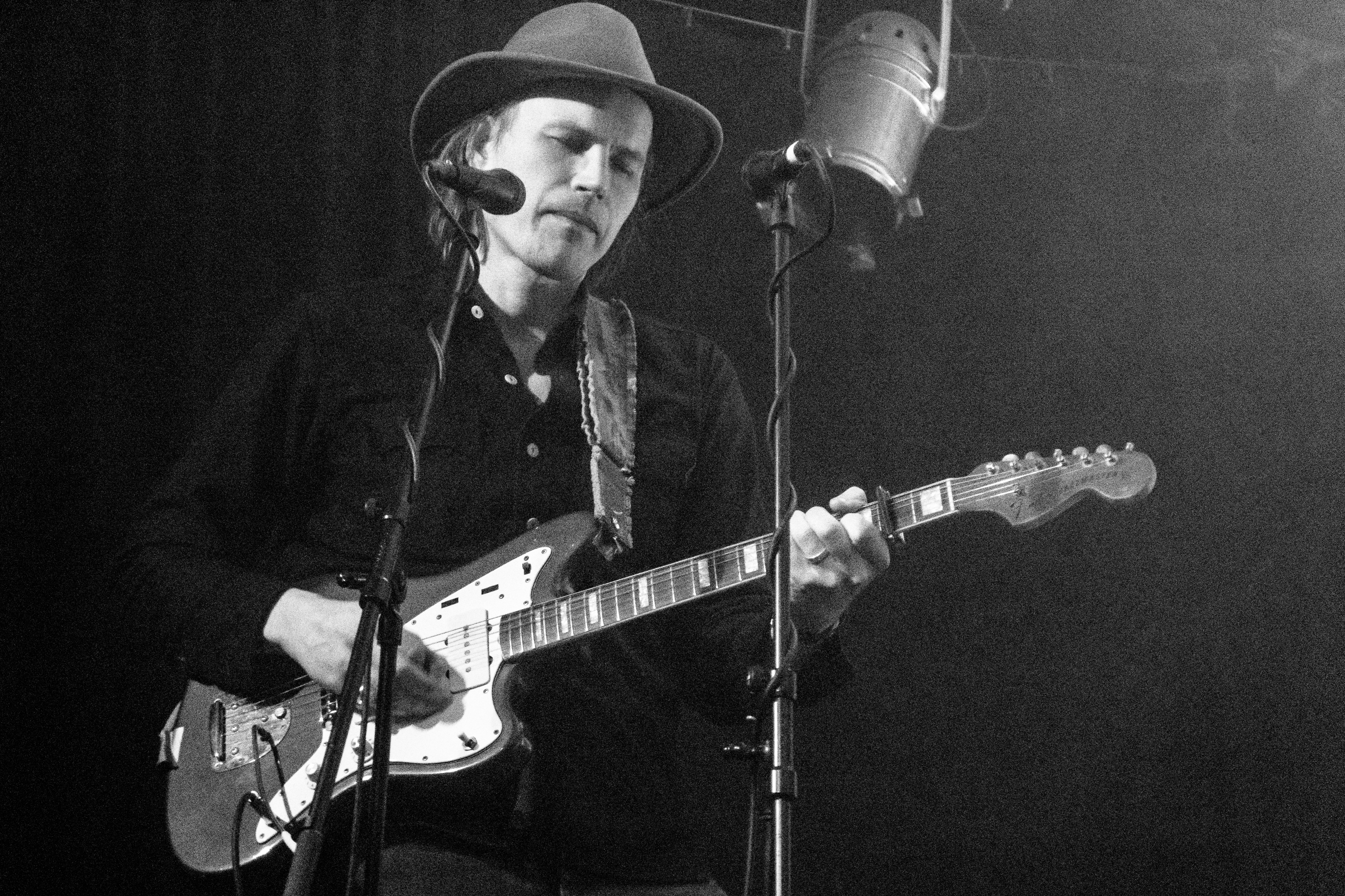 Christian_Kjellvander, a Swedish singer-songwriter, during his concert on 2017-03-03 in Vöcklabruck